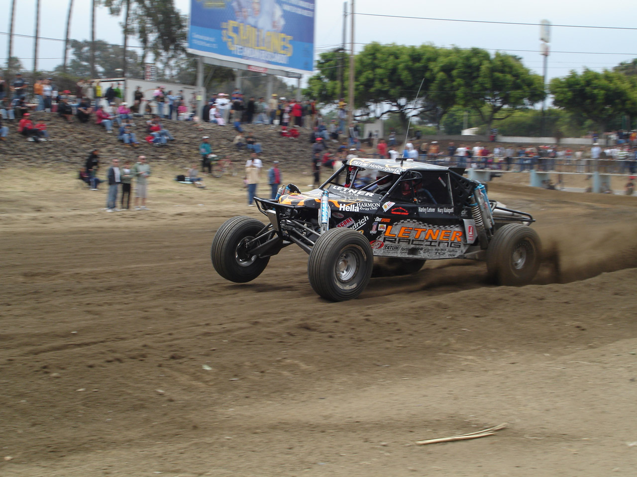 Letner Racing in SCORE Class 1 turning into the Ensenada river at the start of the 2007 Baja 500.